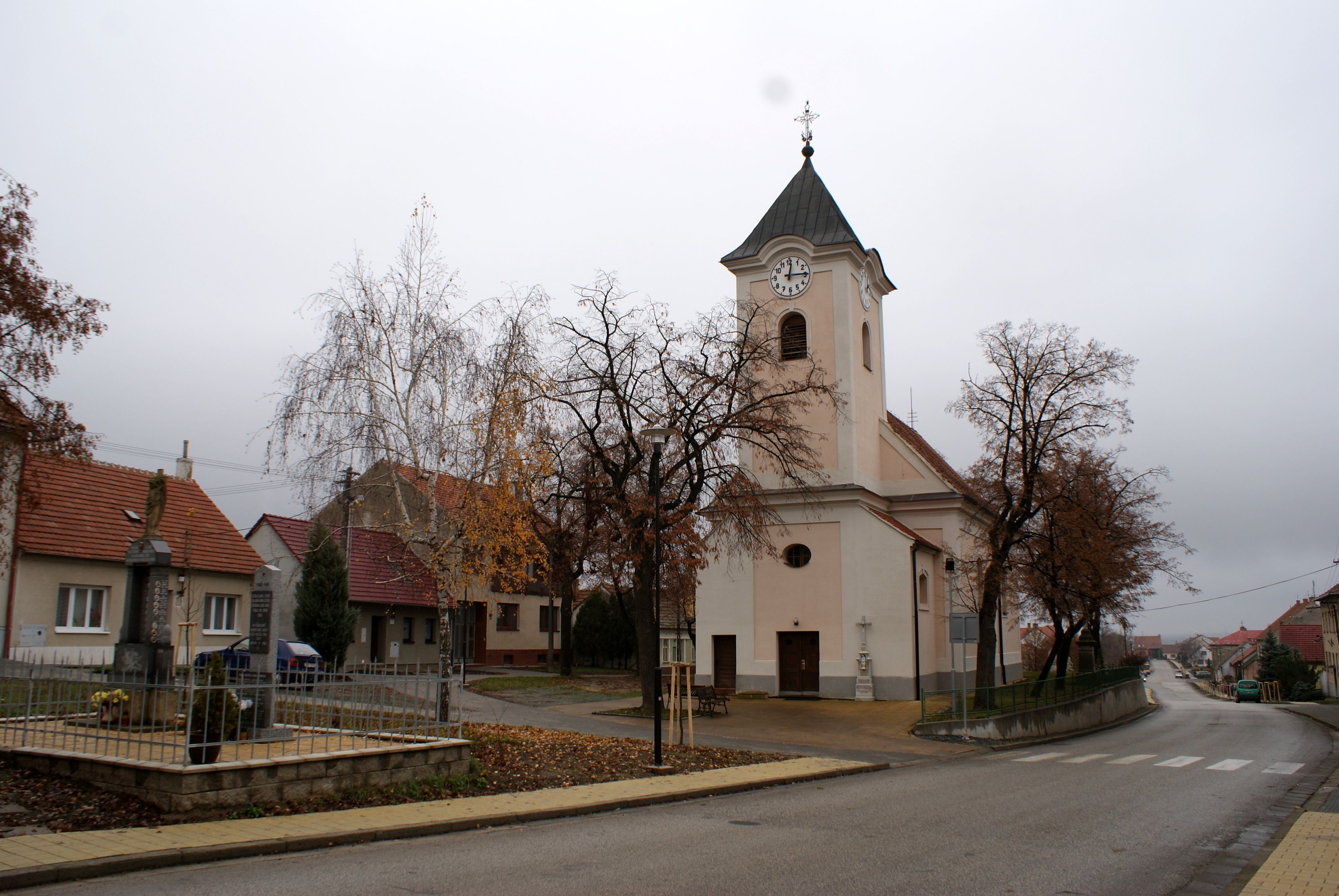 Šakvice, church on the village common